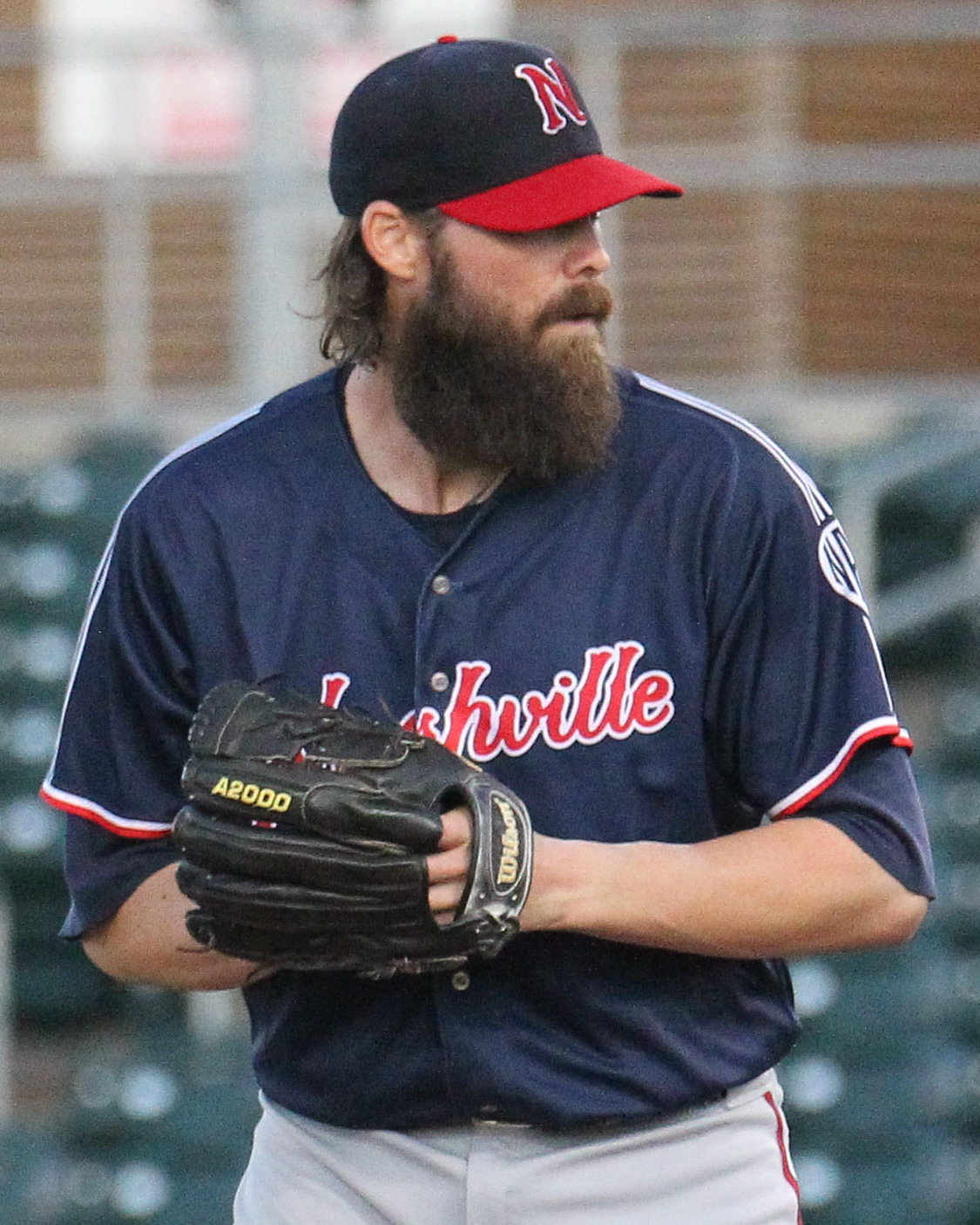 Minda Haas Kuhlmann | 2019 USAGE INSTRUCTIONS: You are welcome to share or publish to your own site or social media account, but you MUST credit me, Minda Haas Kuhlmann. Twitter: @minda33. Instagram: minda.haas